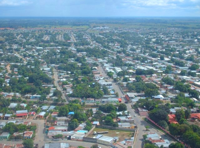 Barinas, Barinas State. Venezuela.